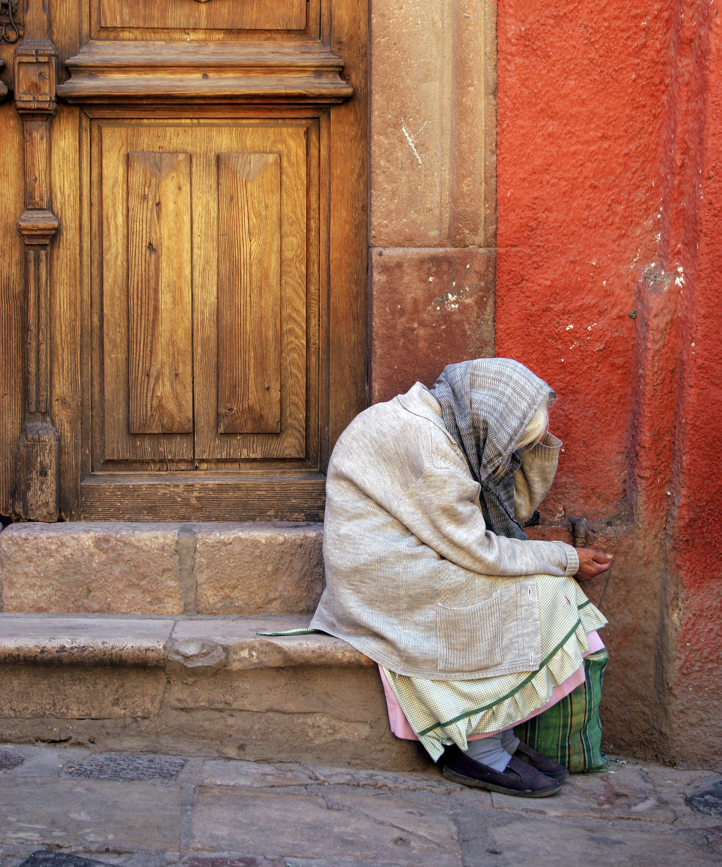 Old lady at San Miguel Allende, Guanajuato, Mexico.